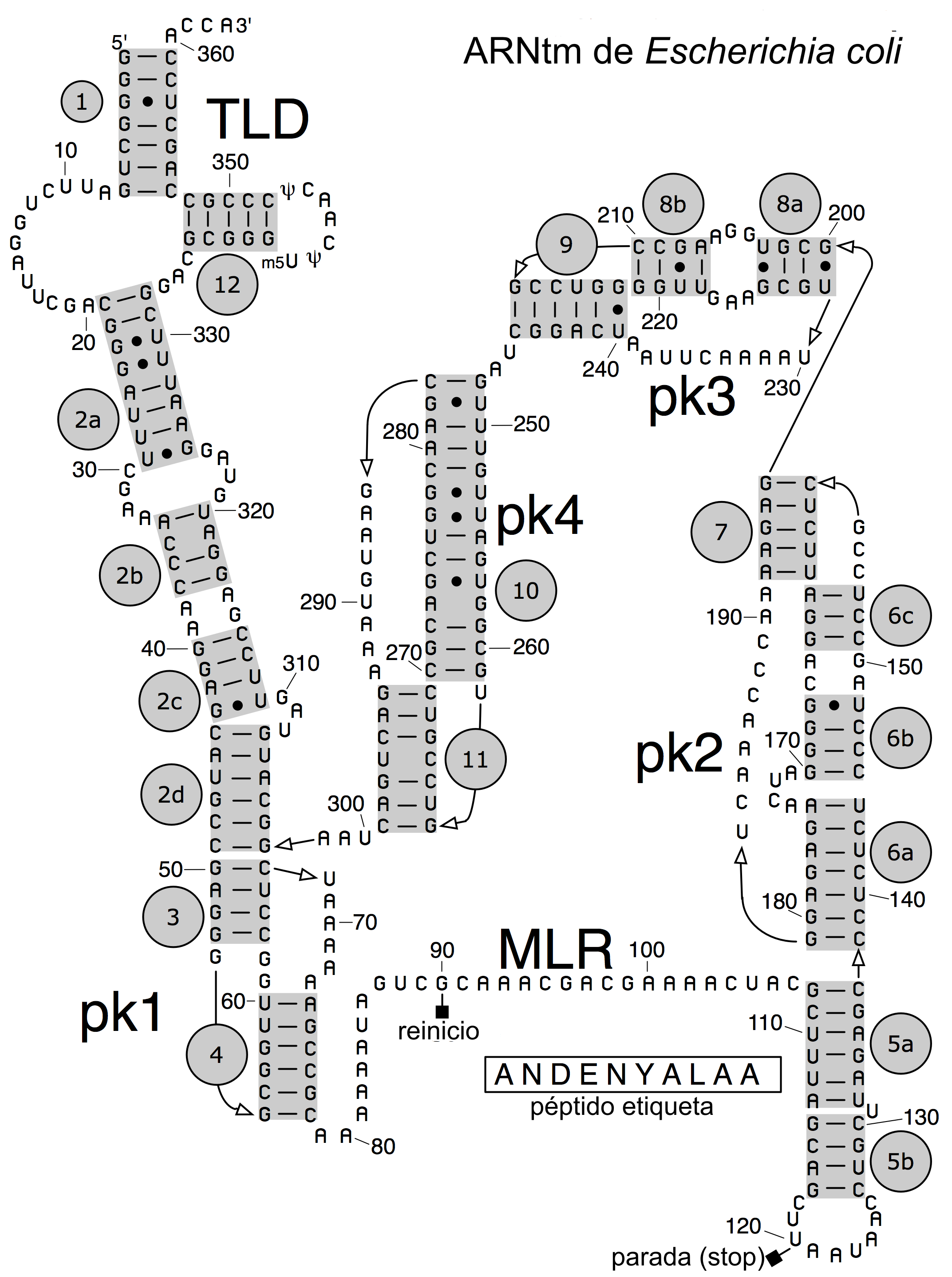 E. coli tmRNA (translated to Galician)